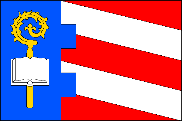 flag of the Czech municipality Dobřany v Orlických horách